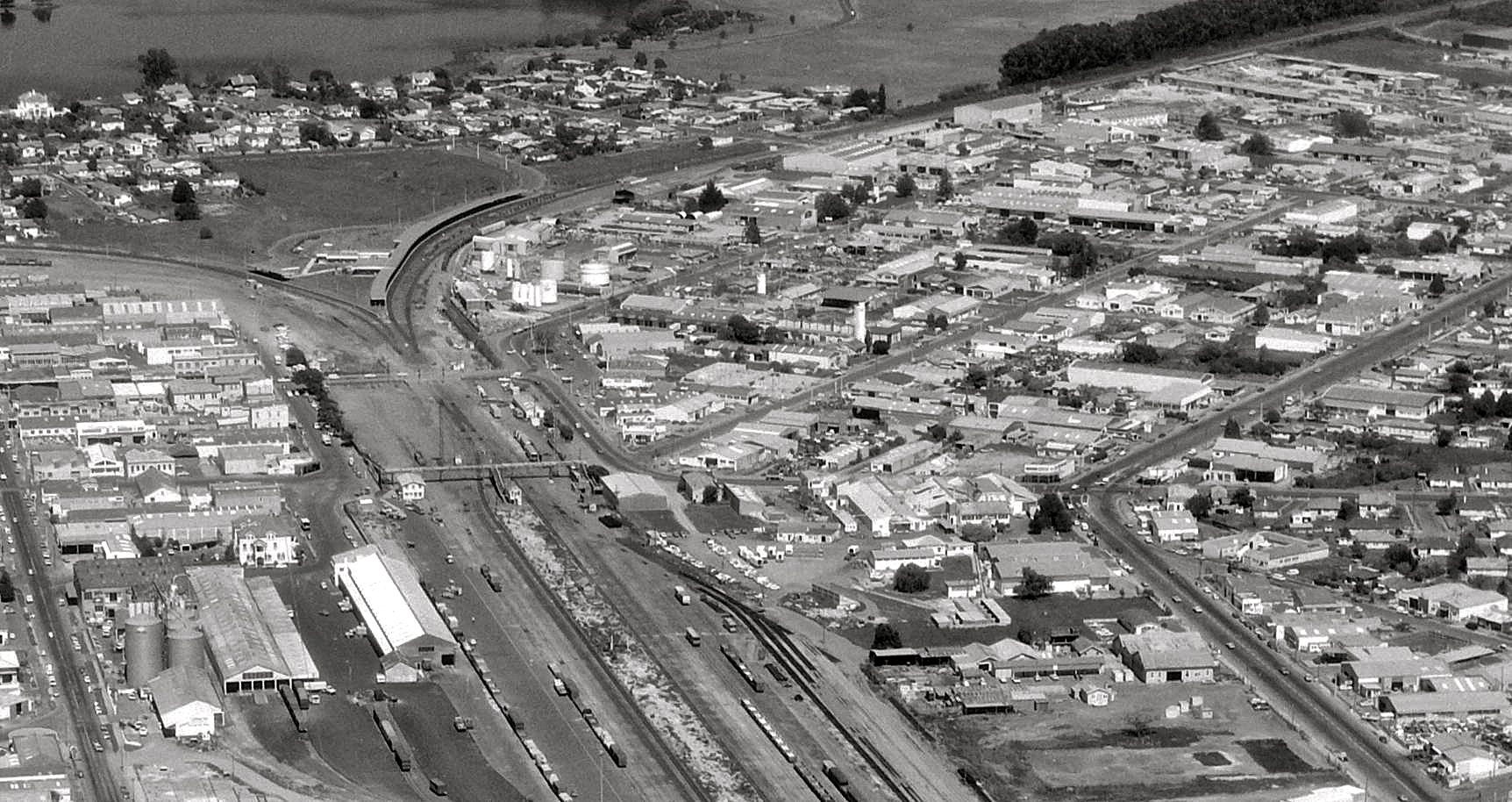 Frankton Junction, Hamilton. Whites Aviation Ltd :Photographs. Ref: WA-75315-F. Alexander Turnbull Library, Wellington, New Zealand.